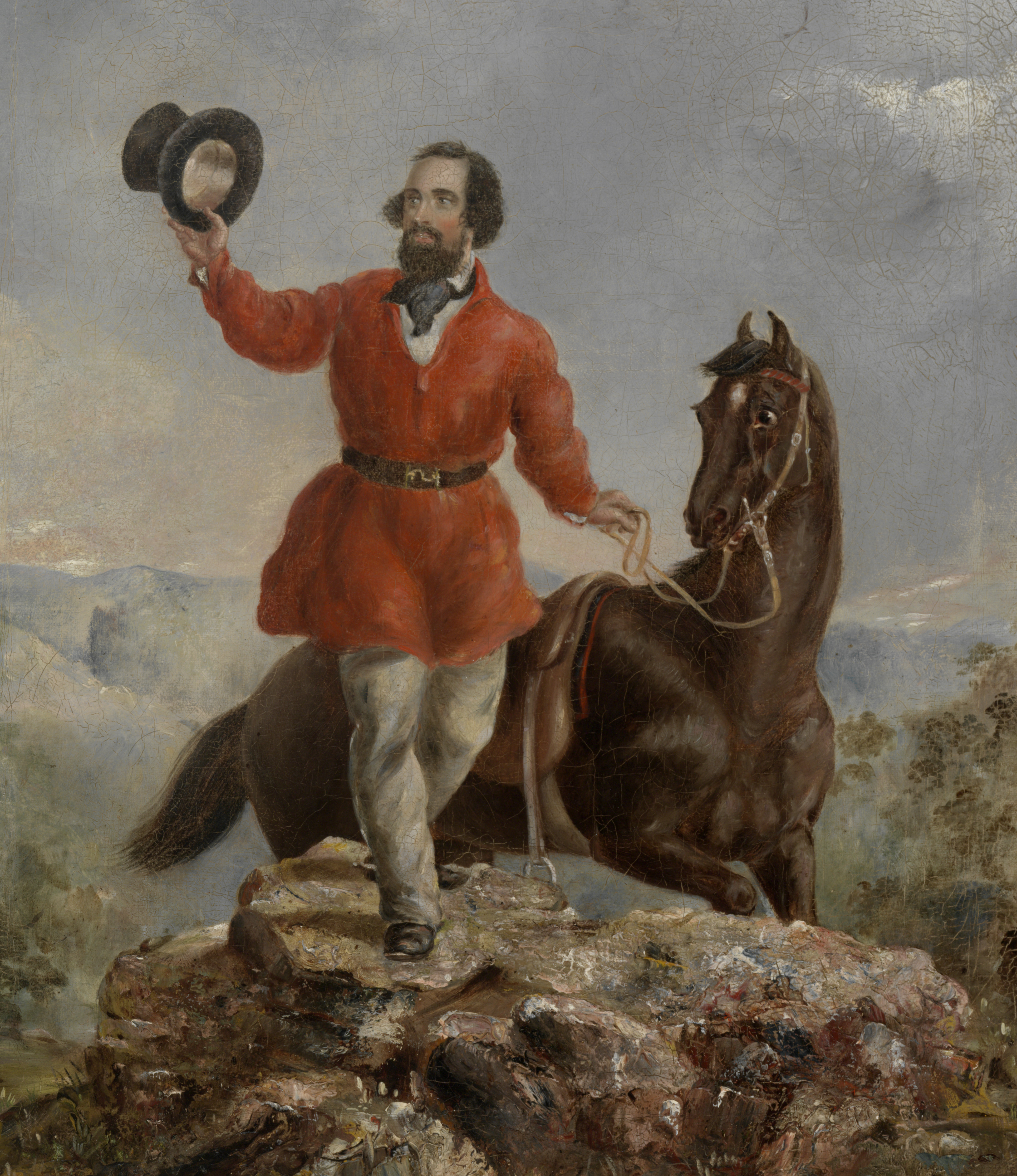 Mr E.H. Hargraves, The Gold Discoverer of Australia, Feb 12th 1851 returning the salute of the gold miners - Thomas Tyrwhitt Balcombe, National Museum of Australia, Canberra, Australia